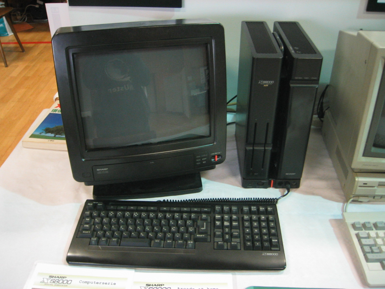 Vintage computer at VCFE meeting in Germany